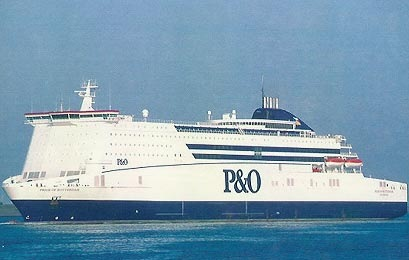 P&O ferry MS Pride of Rotterdam in Kingston upon Hull. IMO Number: 9208617 MMSI Number: 244980000 Callsign: PBAJ Length: 214 m Beam: 32 m